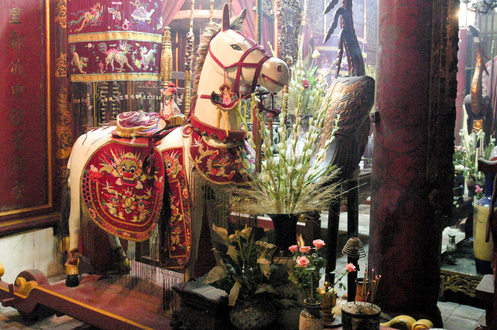 Bach Ma Temple - there's the white horse